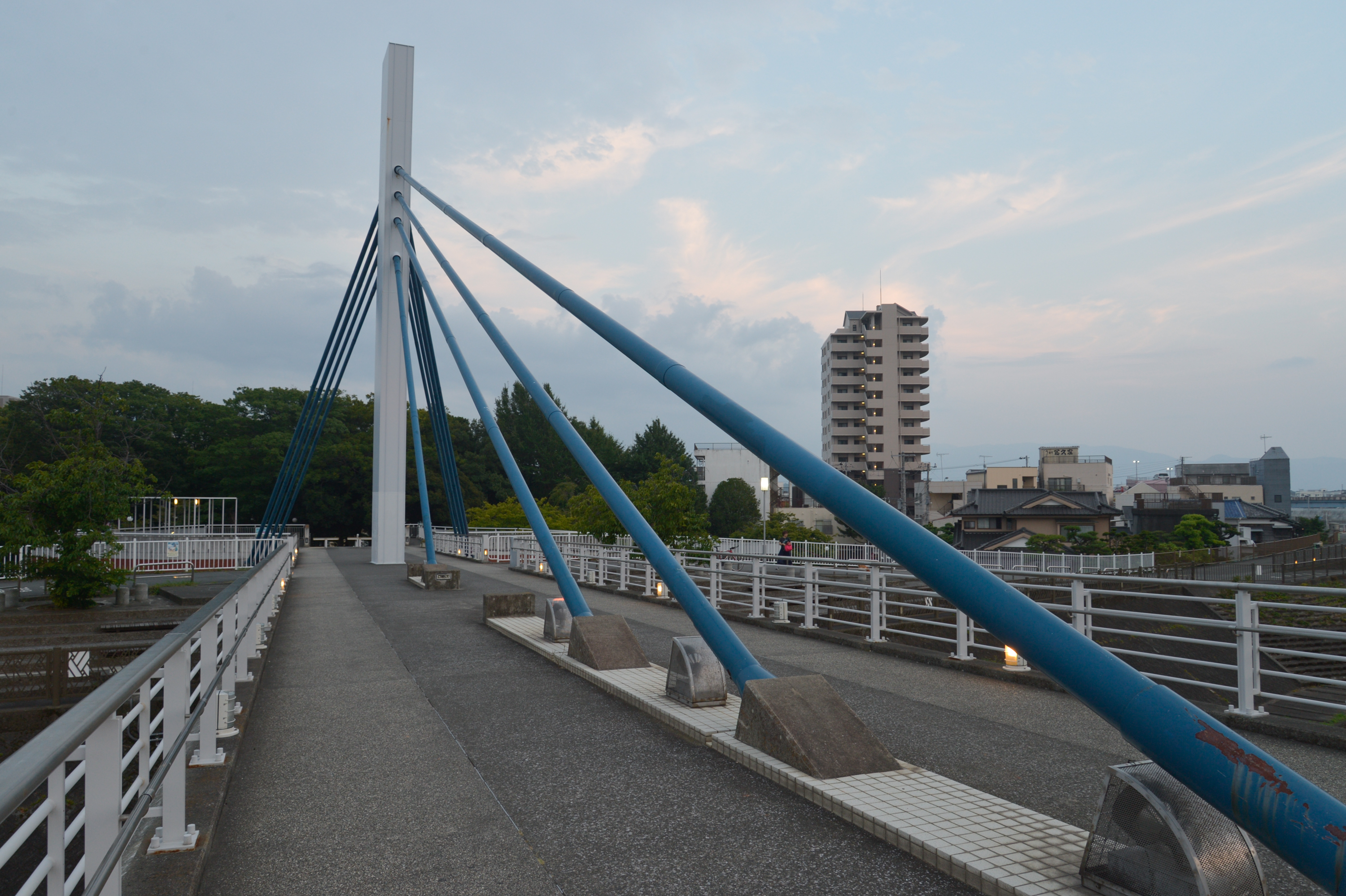 Ayumi Bridge in Numazu Nikon Df